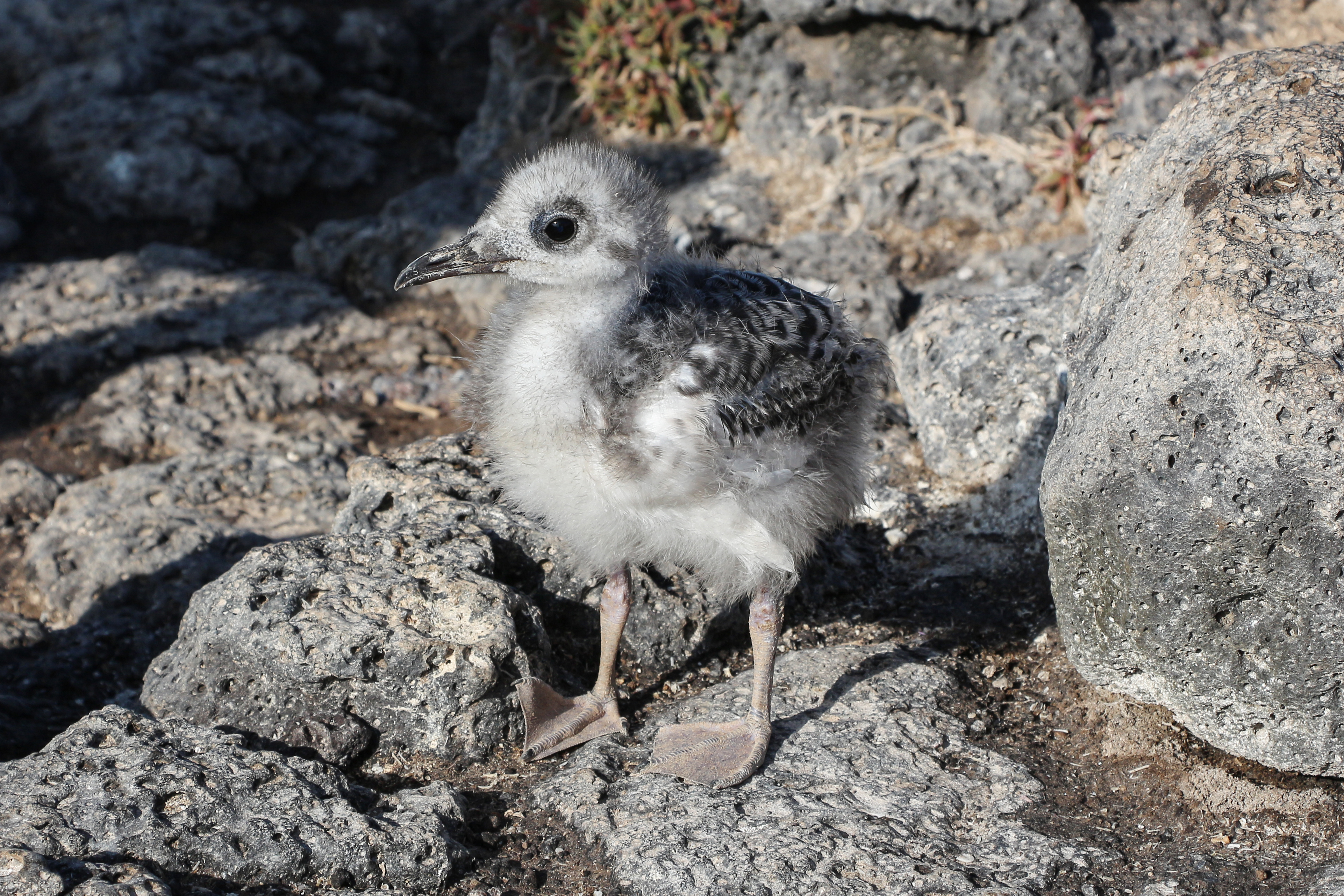 Juvenile Swallow-tailed Gull (Creagrus furcatus) in Plaza Sur Island, Galápagos National Park, Ecuador